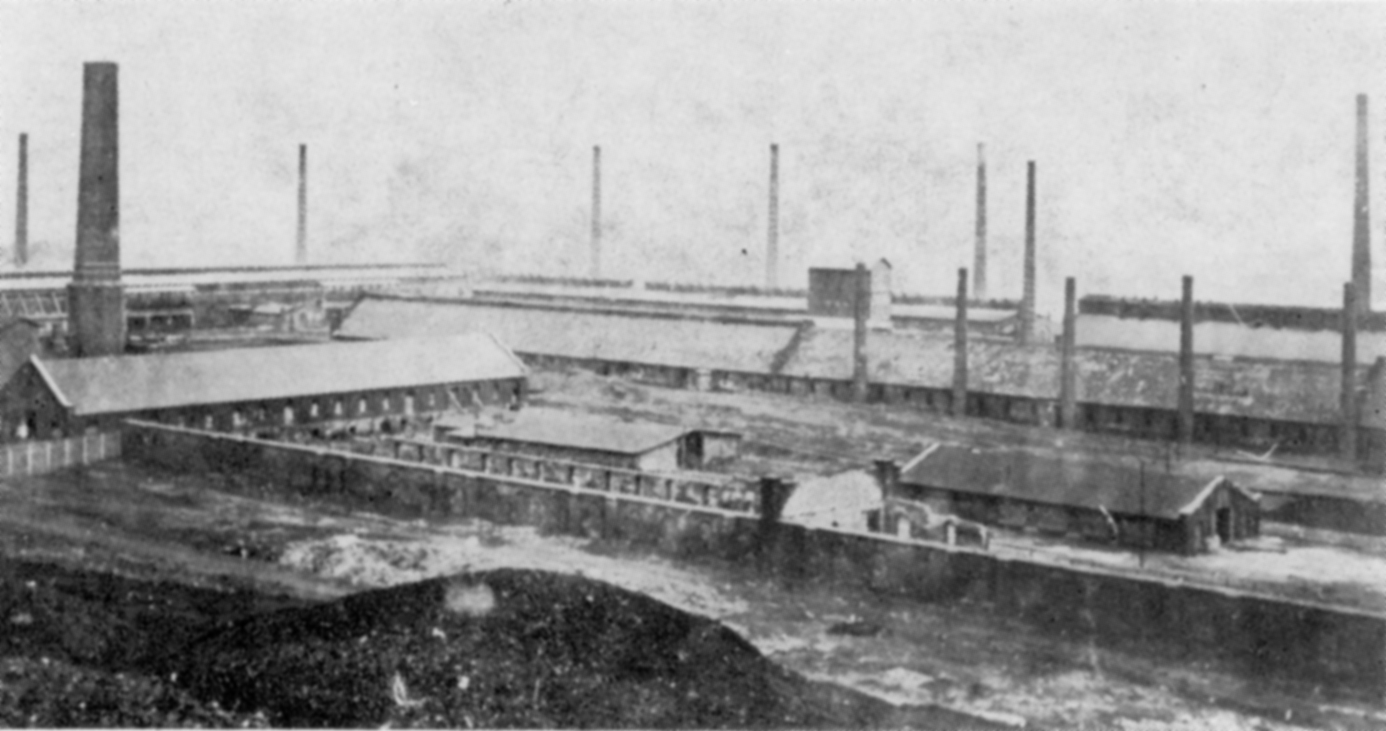 The zinc smelter Hohenlohe in Wełnowiec (Katowice, Poland).